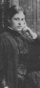 Lilian Helen Alexander, cropped from image of the first group of female medical students at the University of Melbourne, 1887